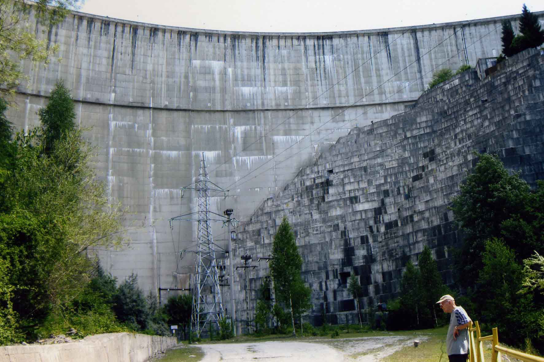 Paltinu dam - view from downstreams